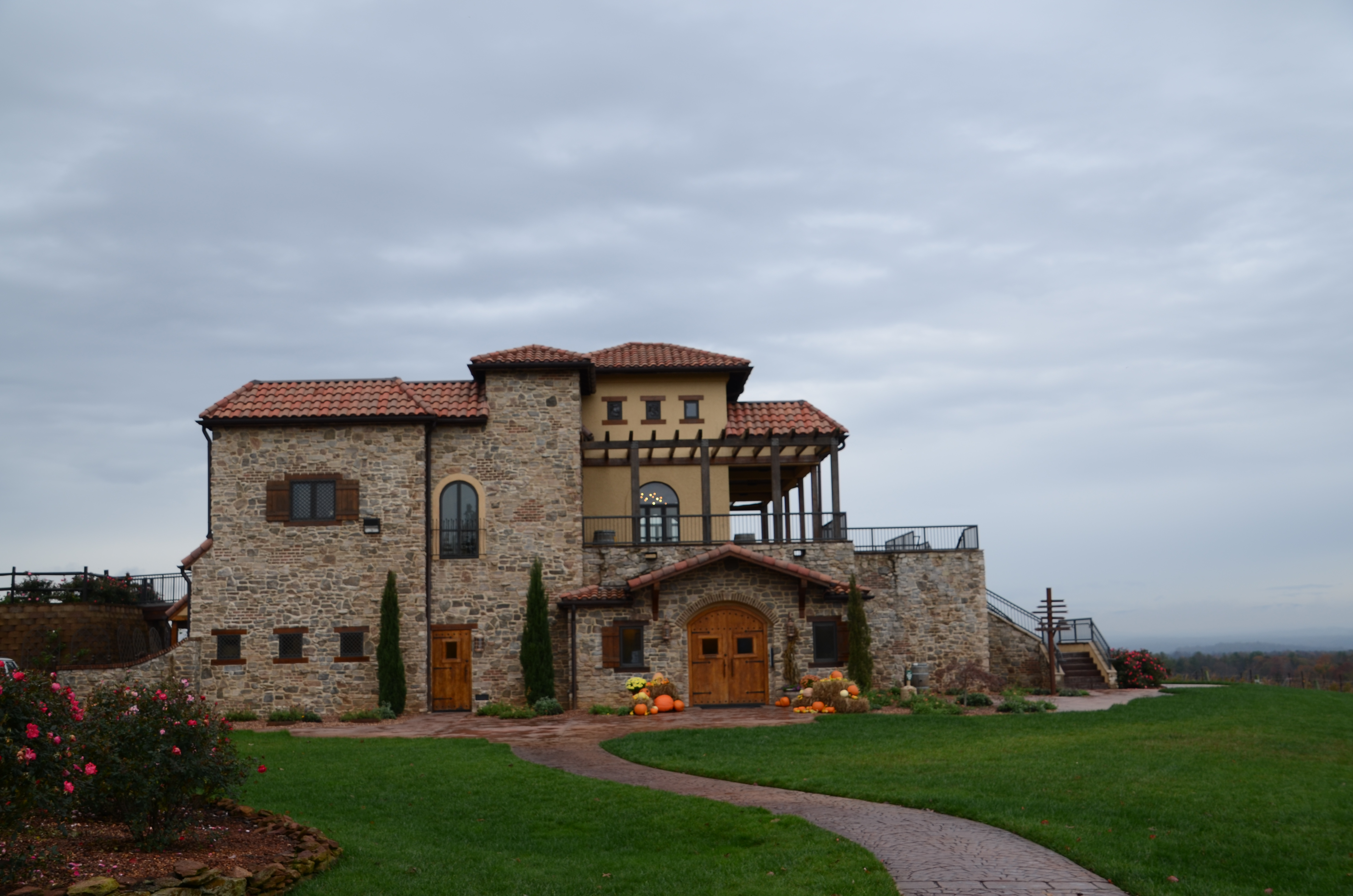 Raffaldini Winery near Ronda, North Carolina